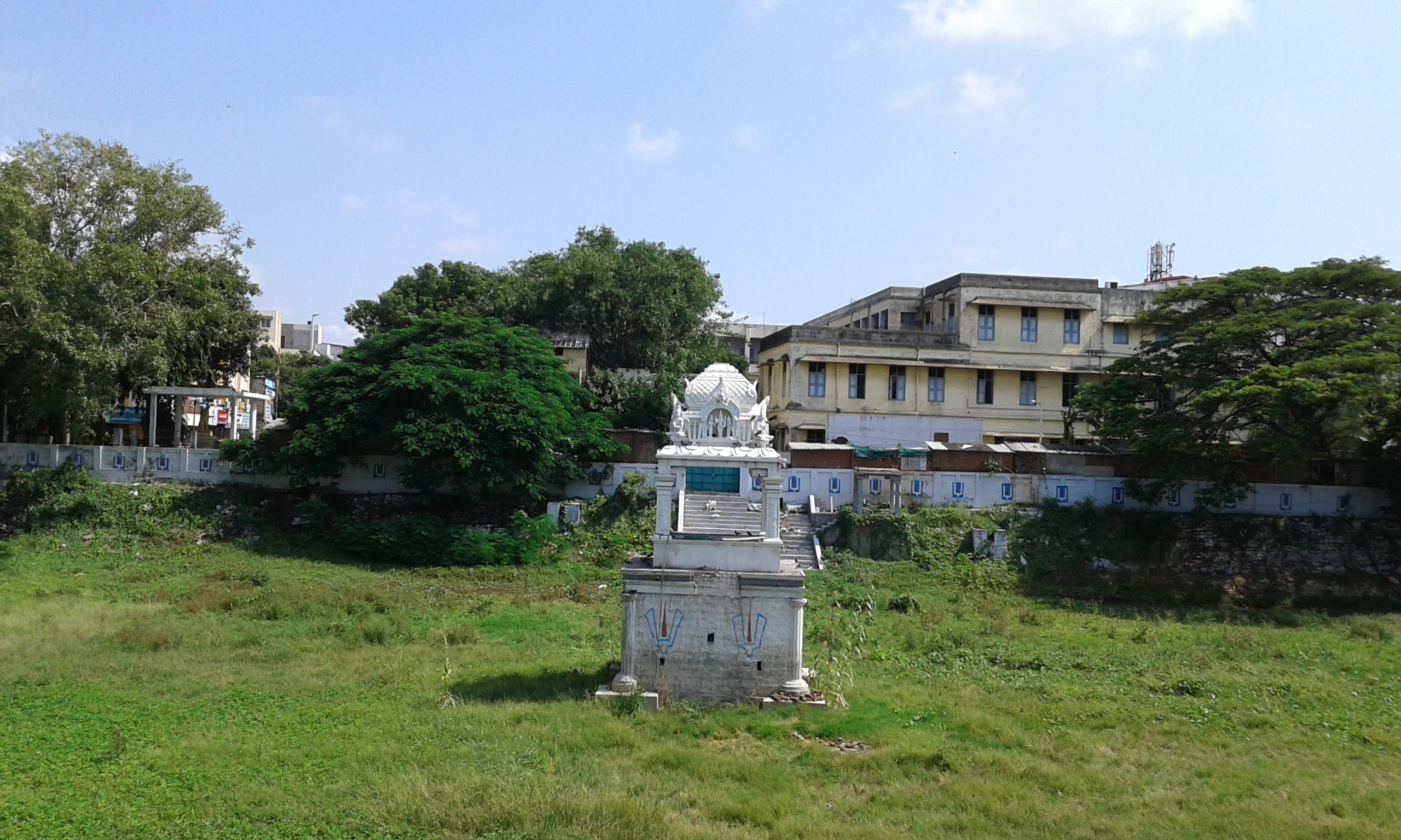 Chitrakulam